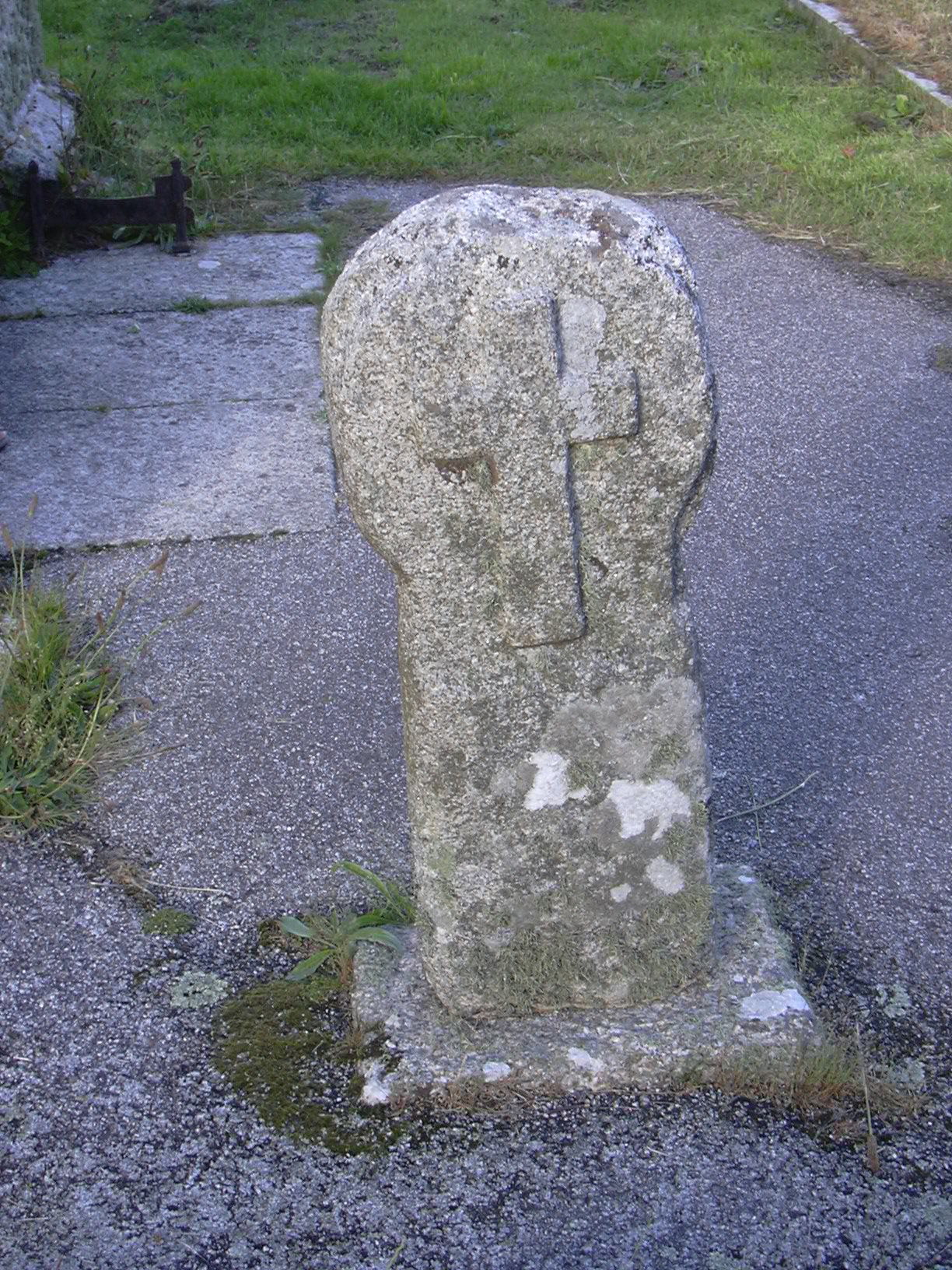 Mabe churchyard, Cornwall: reworked Celtic cross